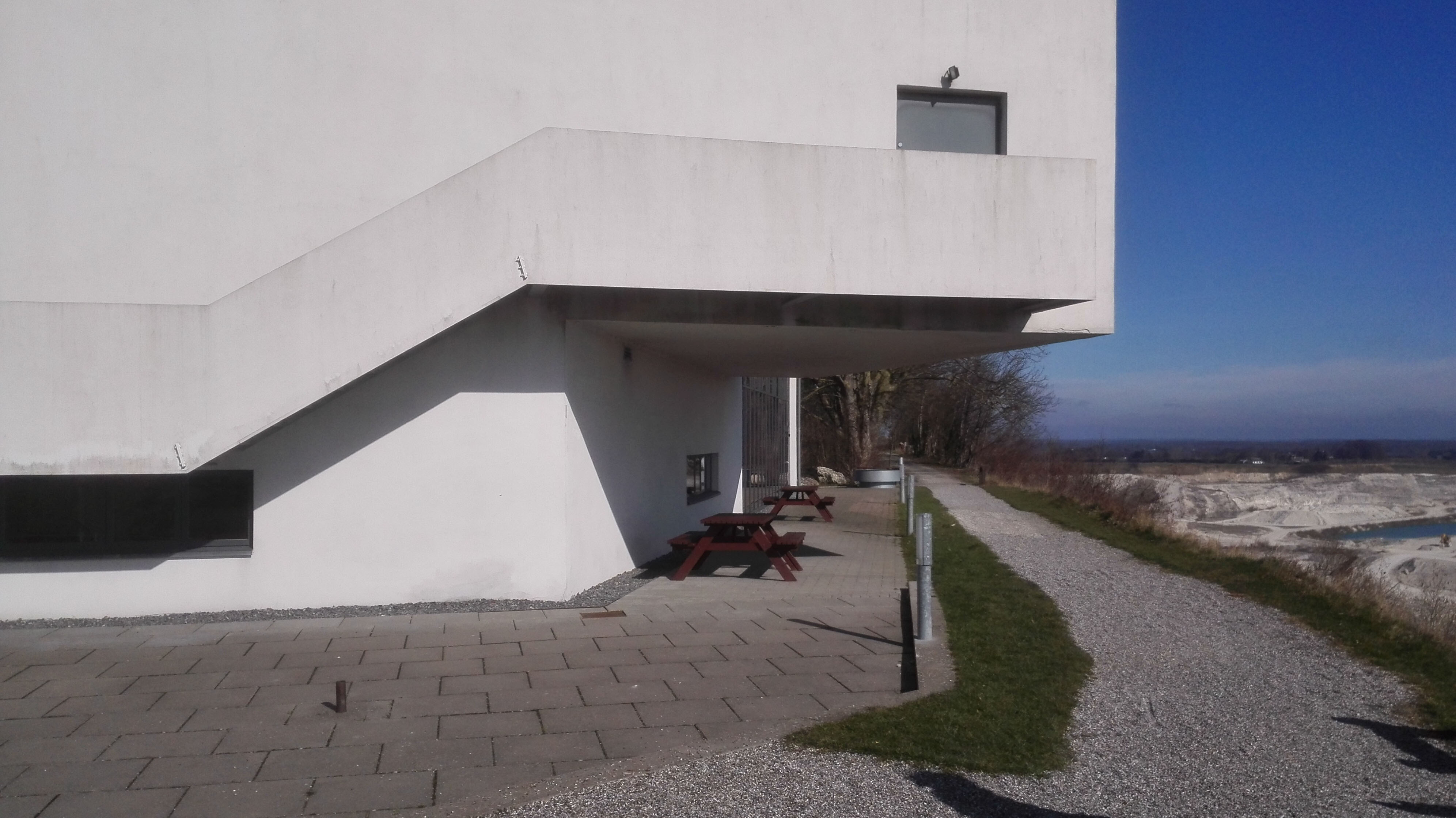 South side of Geomuseum Faxe, to the right is Faxe Kalkbrud.